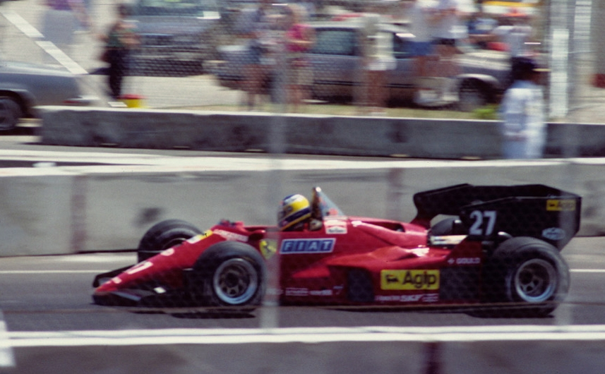 Michele Alboreto, #27 Ferrari spun out of the race on Lap 54.